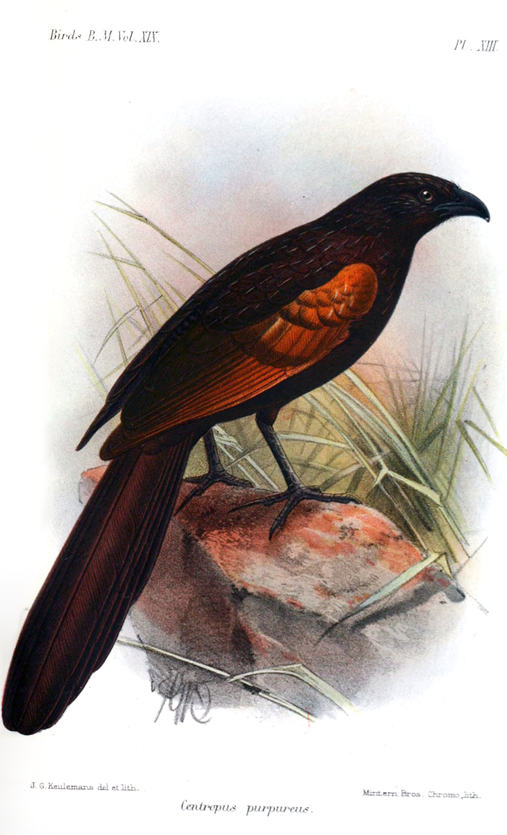 Sunda Coucal